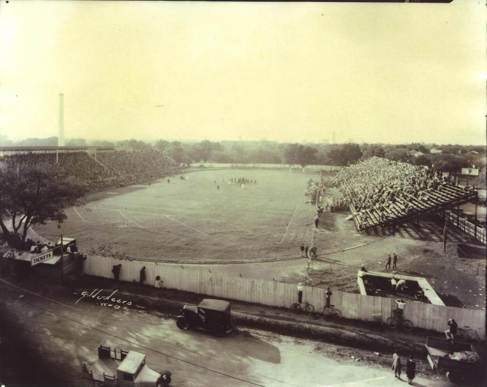 Baylor's First on campus stadium